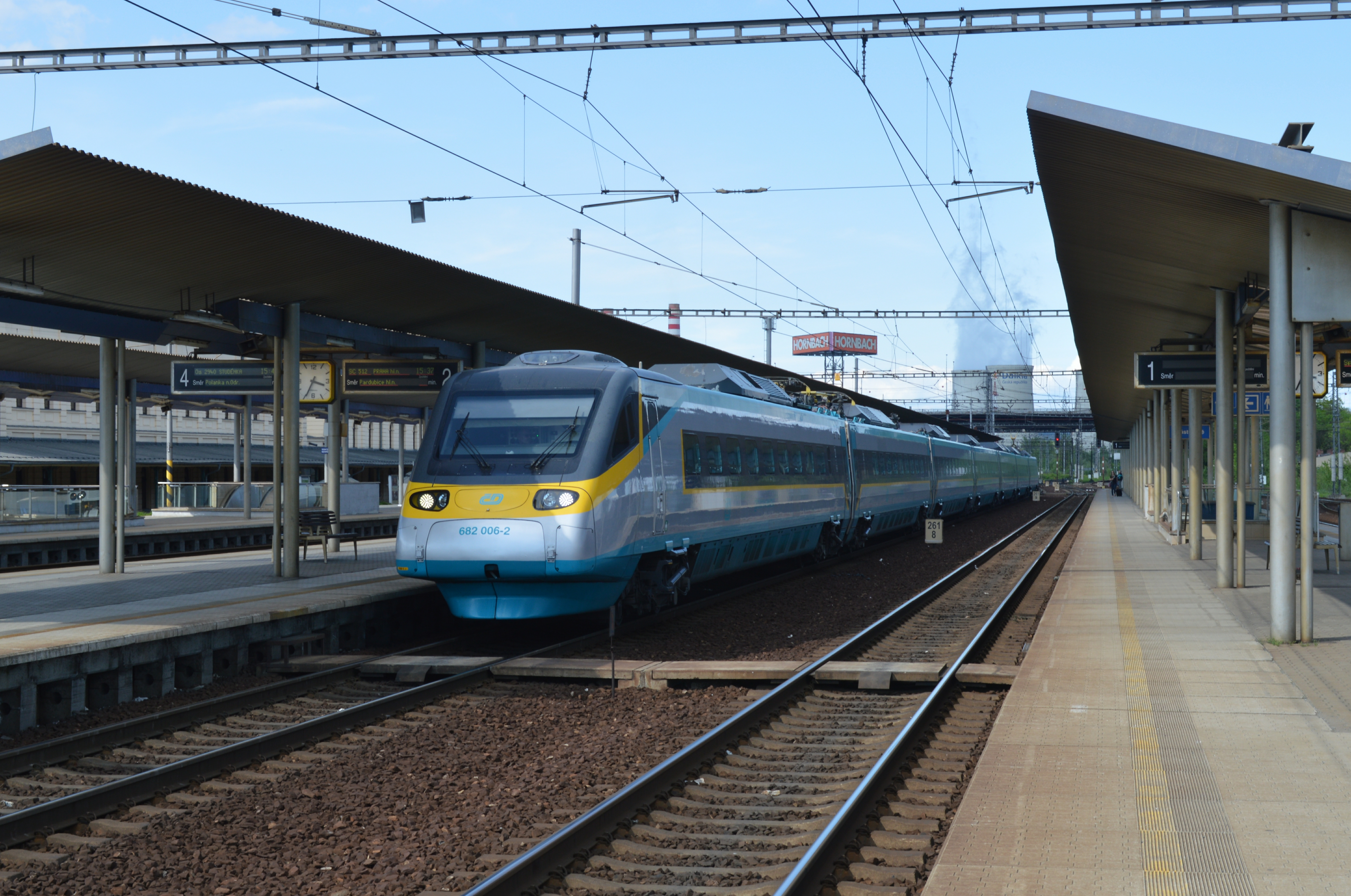 2013 Czech Republic Trip Day Four The Czech Railways have moved into the 21st Century with modern tilting high speed train sets as seen here. Seven class 680 sets were built by Alstolm using Pendolino technology. Introduced from 2004 to operated domestic services branded SuperCity (SC). Trains are compulsory reservation and operate from Františkovy Lázně in the west of the country via Praha through to Bohumín and Český Těšín in the north east. Seen at Ostrava-Svinov on 14 May 2013 set number 6 is working SC512, 15:27 Ostrava hl.n. to Praha hln. Note the sets are numbered class 680, but the class number is not carried by any of the vehicles. The two end power cars are classified class 681 and (as seen here leading) class 682.